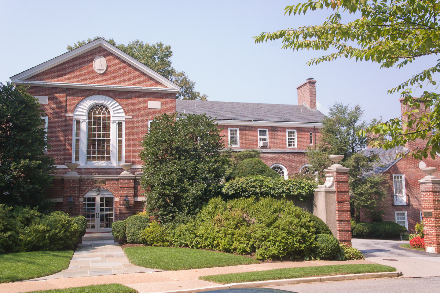 Baltimore Country Club in the Roland Park neighborhood.